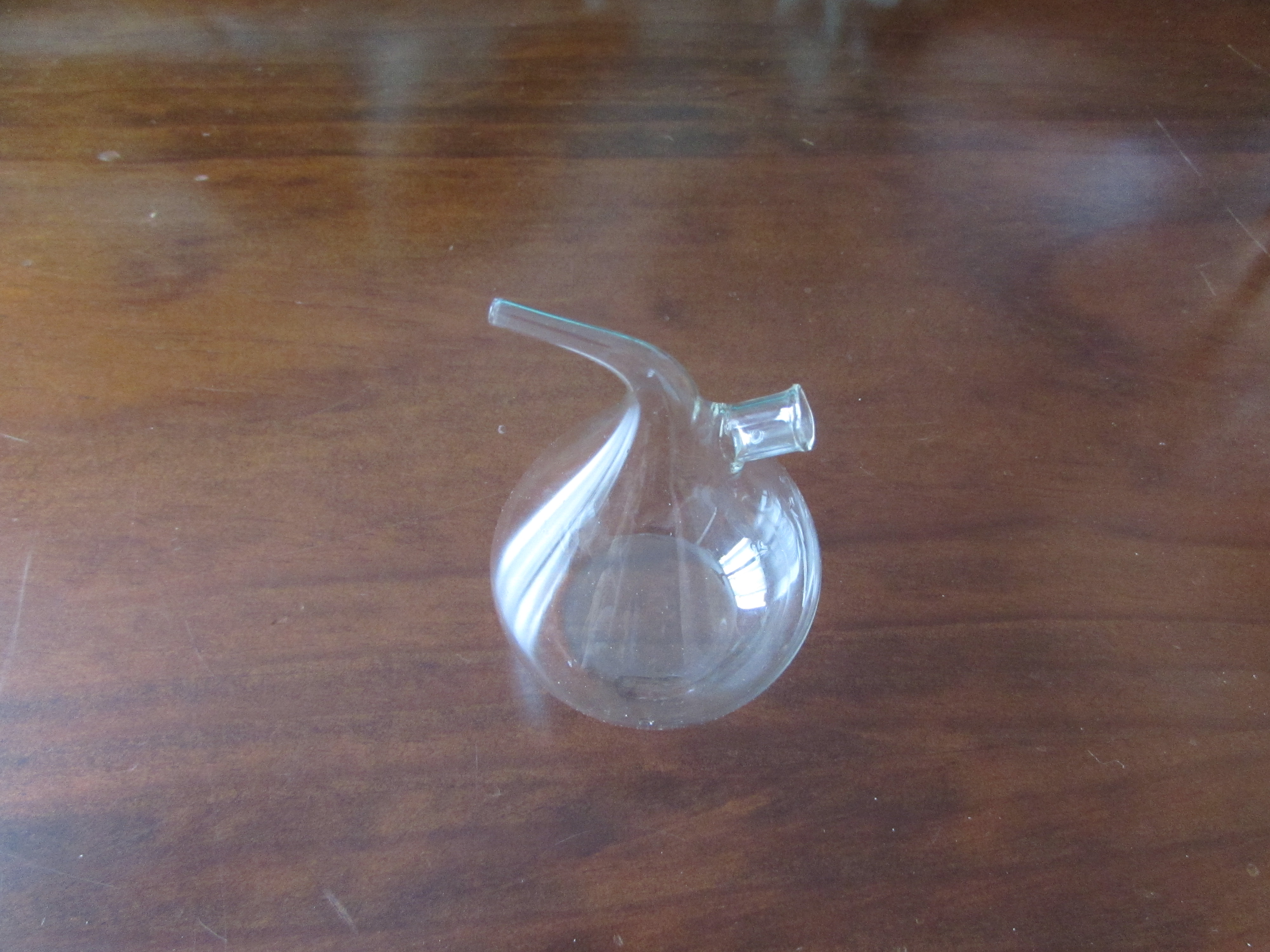 A two ounce glass undine made in the UK before 1972.